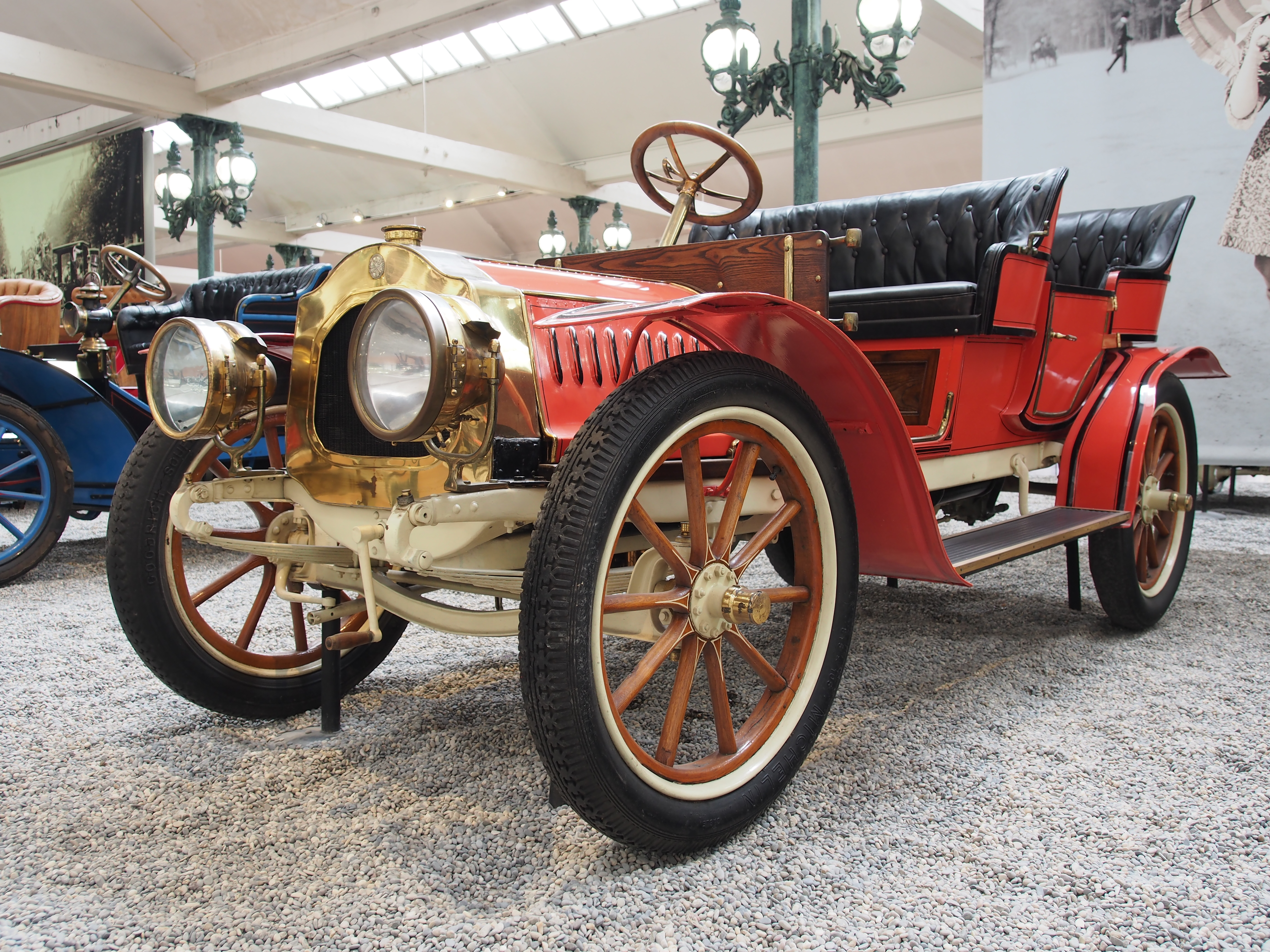 Photographed at the Cité de l'Automobile, France.